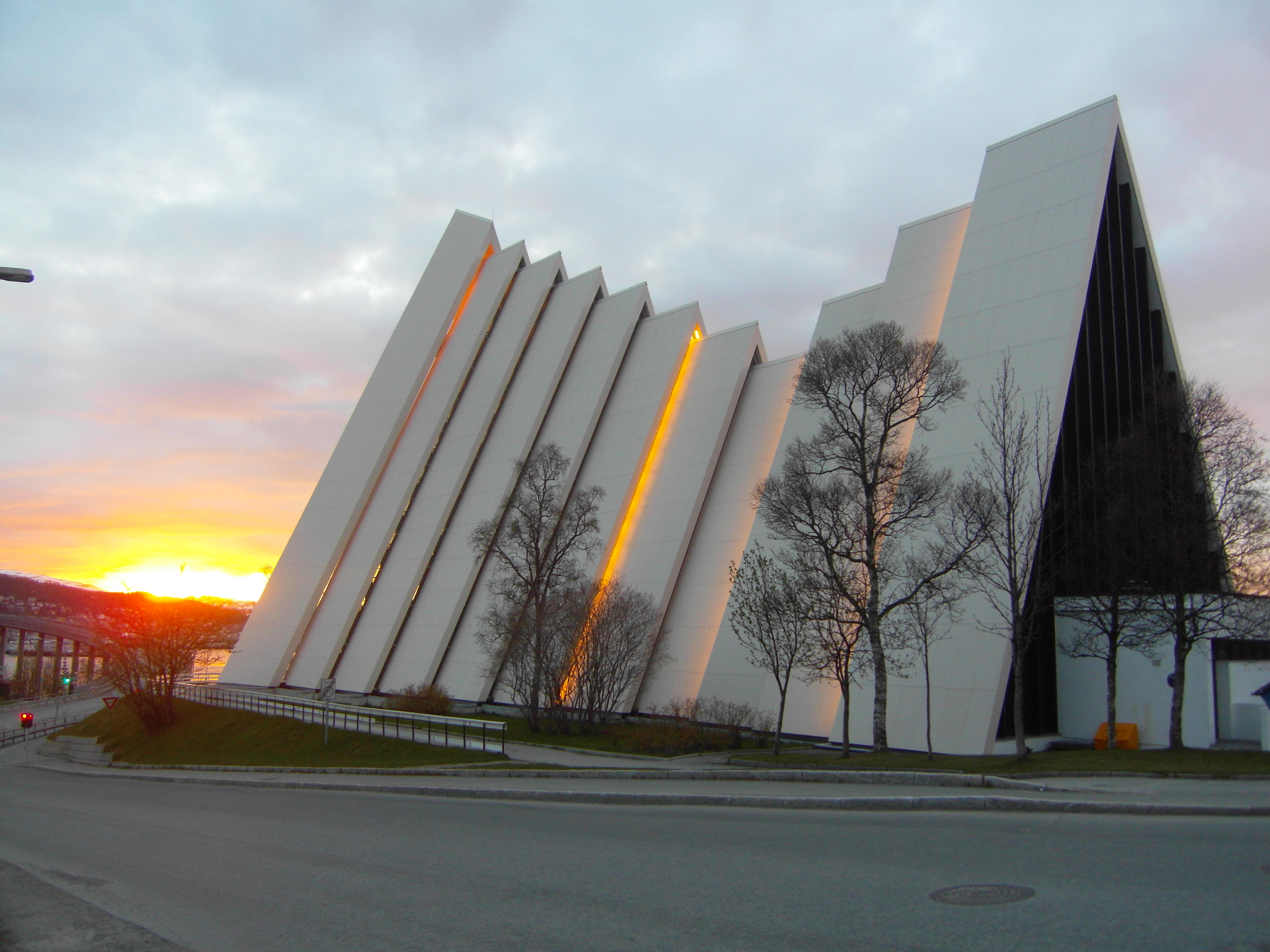 Arctic Cathedral